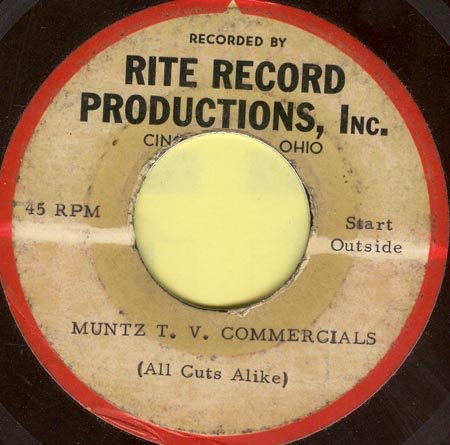 A demo acetate record manufactured by Rite Record Productions presenting Muntz T.V. Commercials (local Cincinnati company).